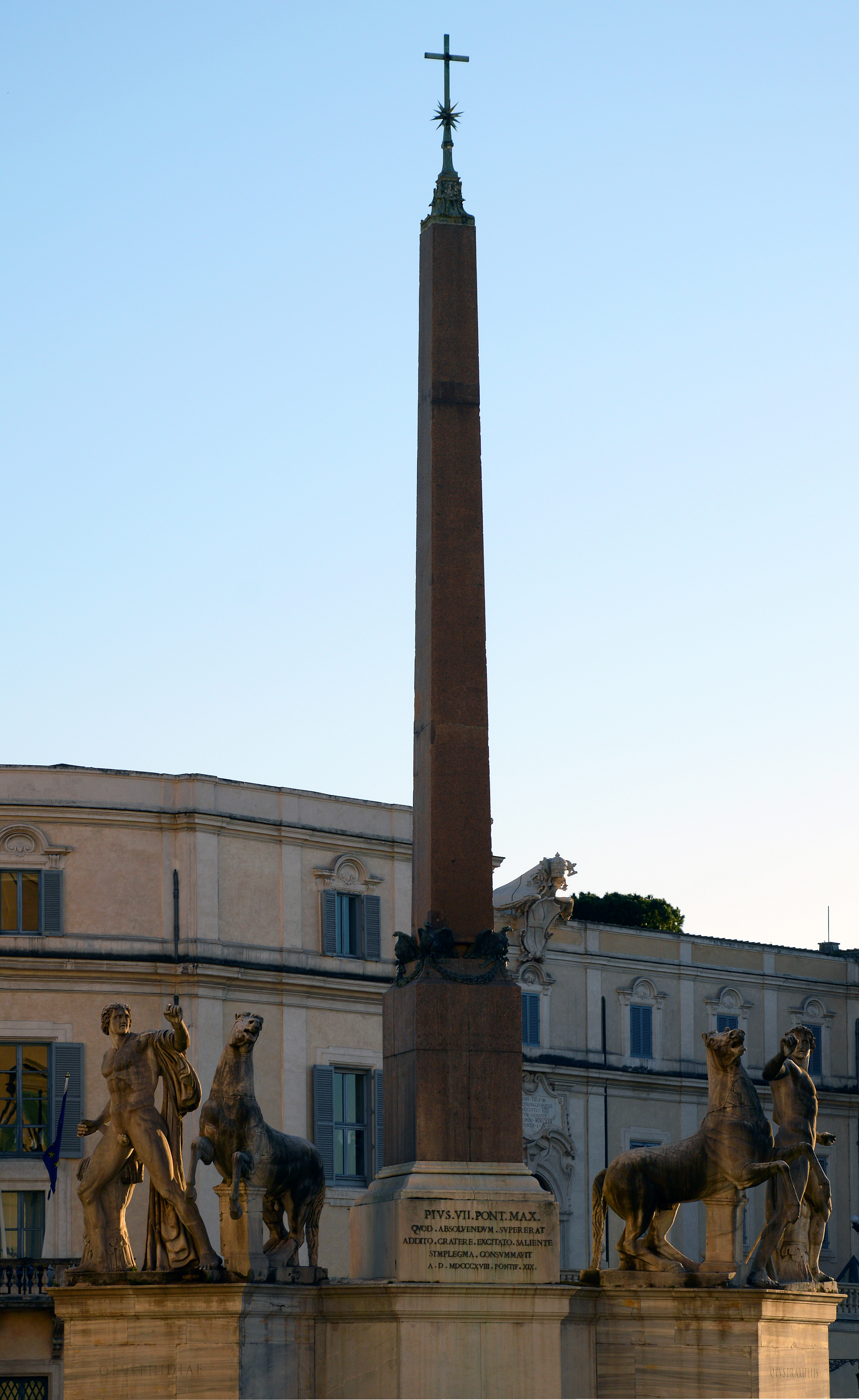 Quirinale obelisk (Rome)